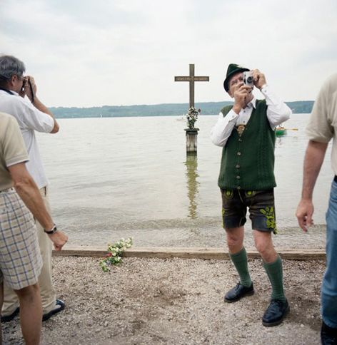 Participants of the yearly commemoration at the Memorial Cross at the site where the body of Ludwig II was found in Lake Starnberg, Germany